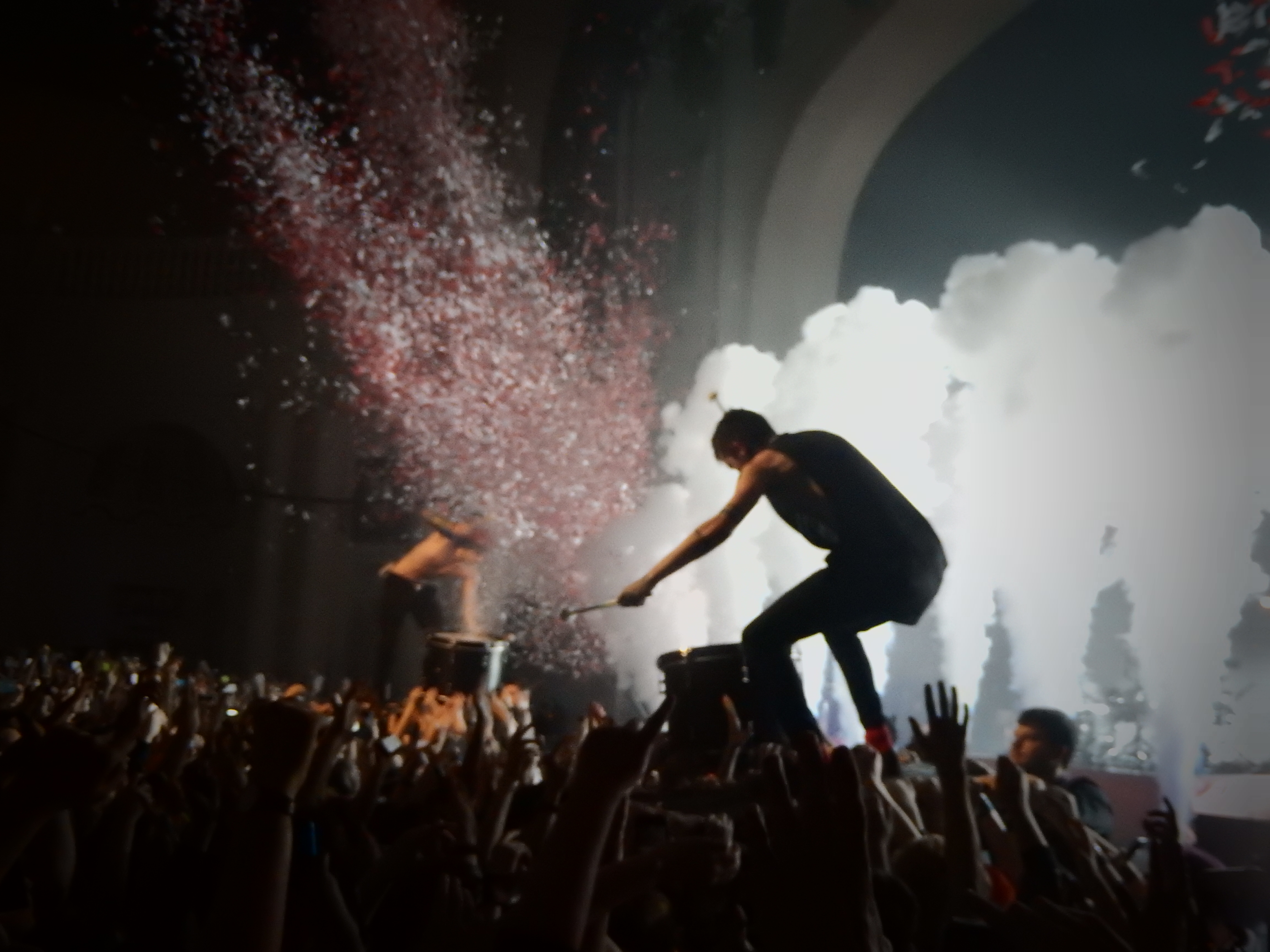 Twenty One Pilots, Brixton Academy, London